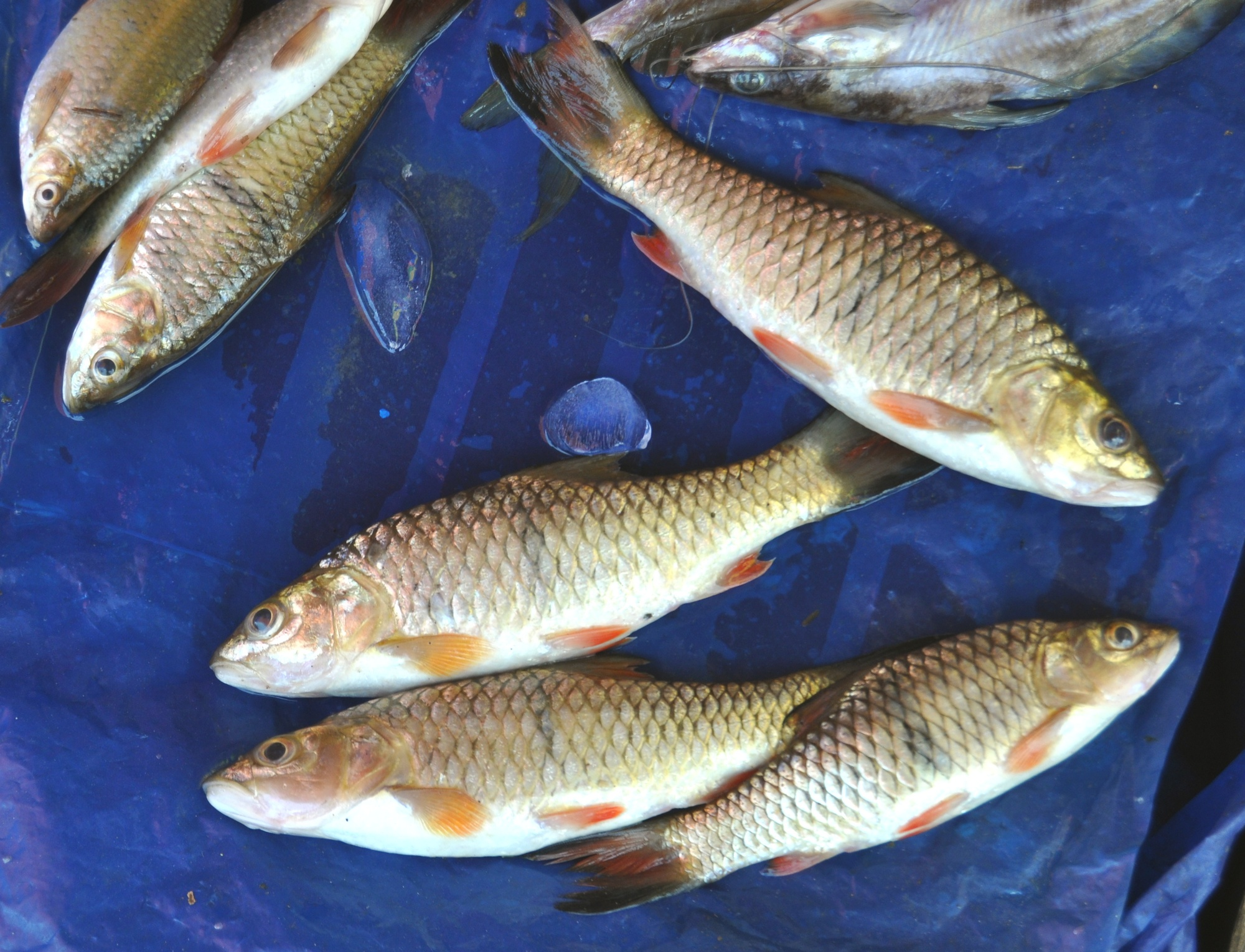 Hampala macrolepidota. From Martapura, South Kalimantan, Indonesia.